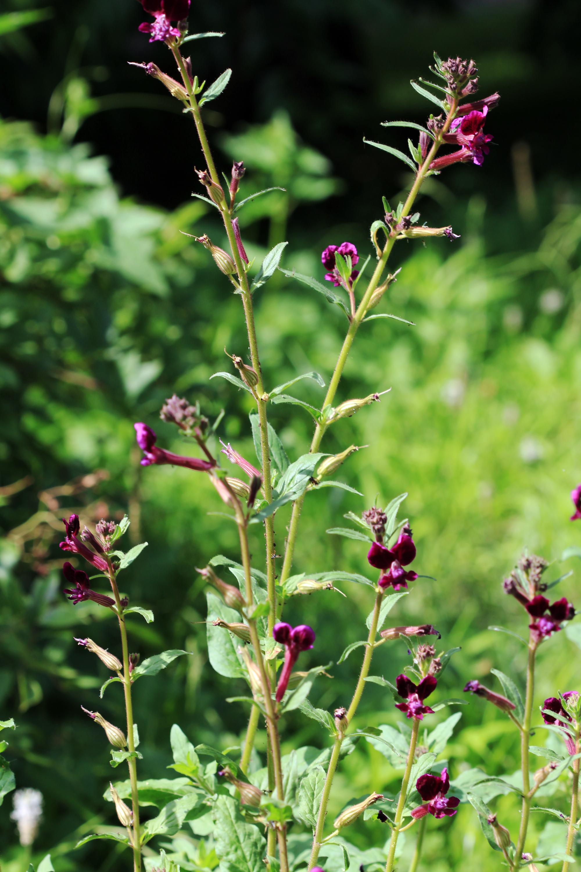 Flowering plants Cuphea lanceolata, (Cuphea lanceolata) from the Botanical Gardens of Charles University, Prague, Czech Republic